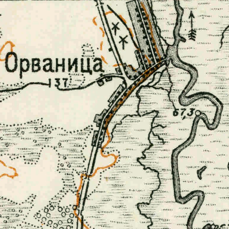 Orvianytsia on the map "Новая Топографическая Карта Западной России", XXVI 21, 1915.